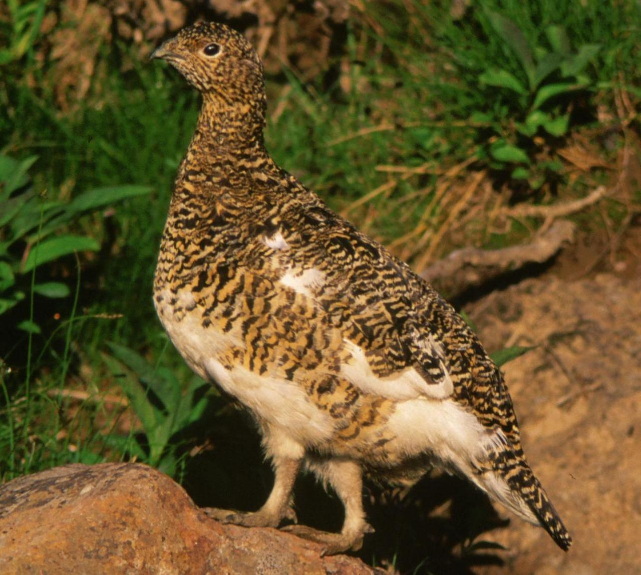 Rock Ptarmigan (Lagopus muta japonica, Lagopus mutus japonicus), female of summer plumage in Mount Ontake, Japan.